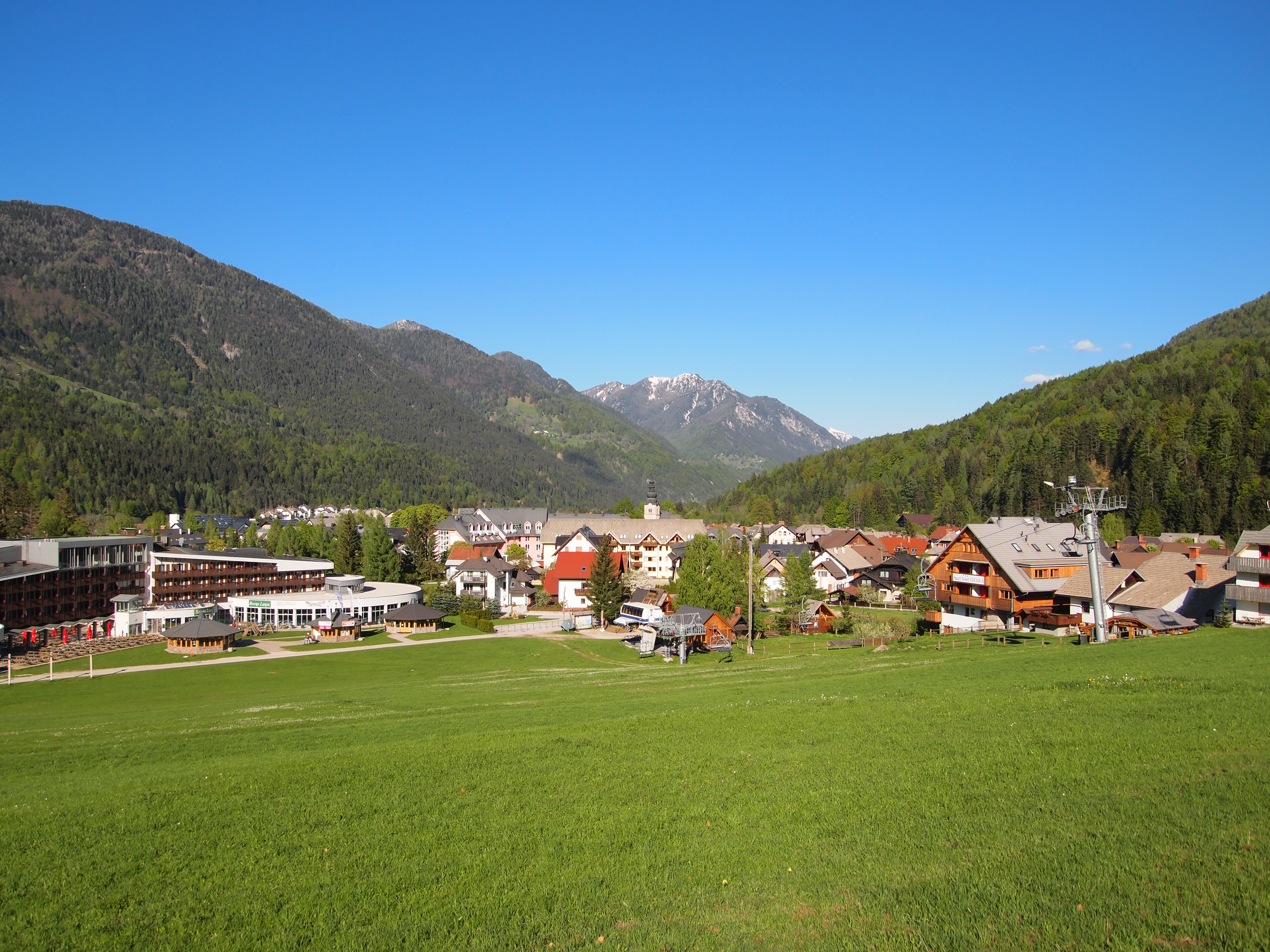 View from hillside to Kranjska Gora town. This photograph was taken with an Olympus E-PL1.